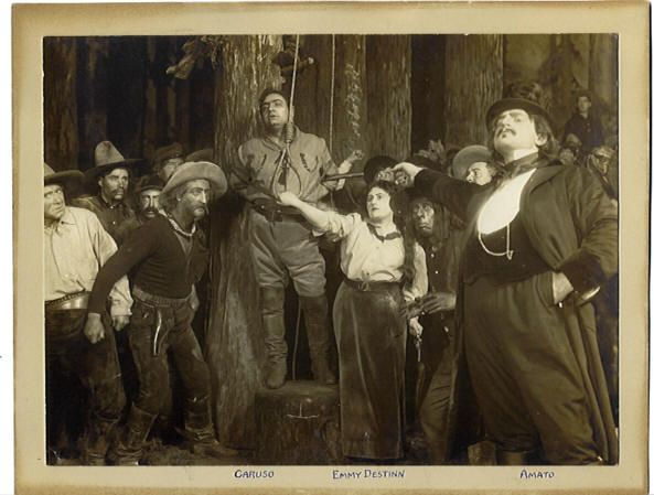 La fanciulla del West (1910), opera by Giacomo Puccini, scene from act 3 of the premiere, with Enrico Caruso, Emmy Destinn, and Pasquale Amato. Image taken from – due to age it's PD in the US